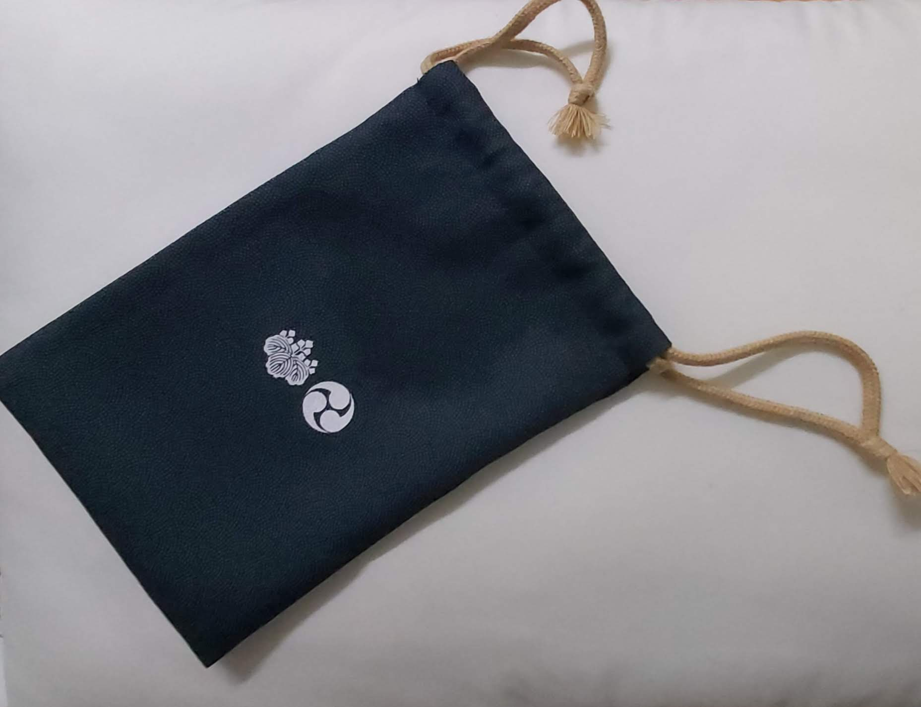 The drawstring bag is used to put in a red seal stamp book, used by worshippers and visitors, of Shinto shrines and Buddhist temples around Japan.